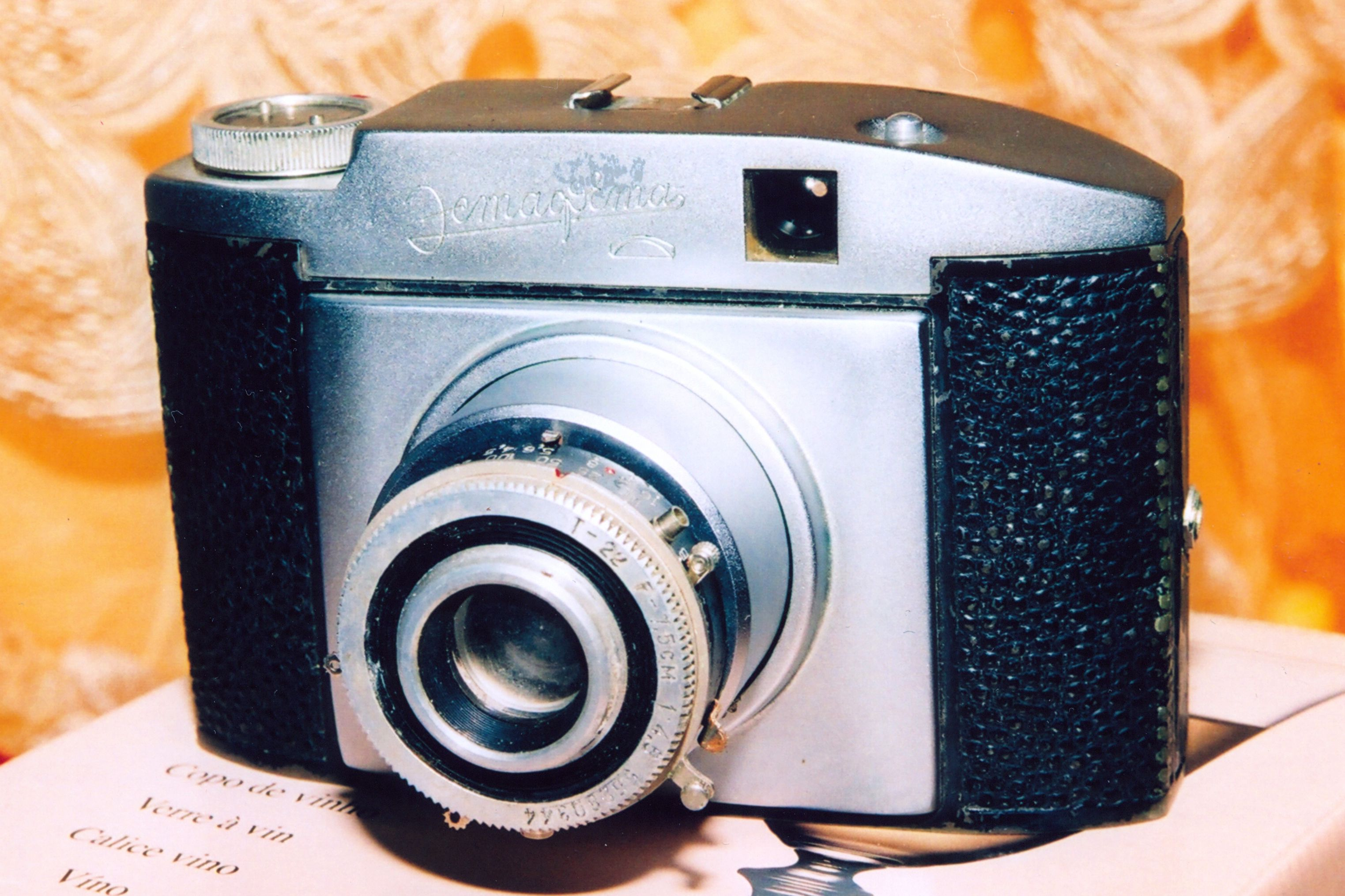 Estafeta camera